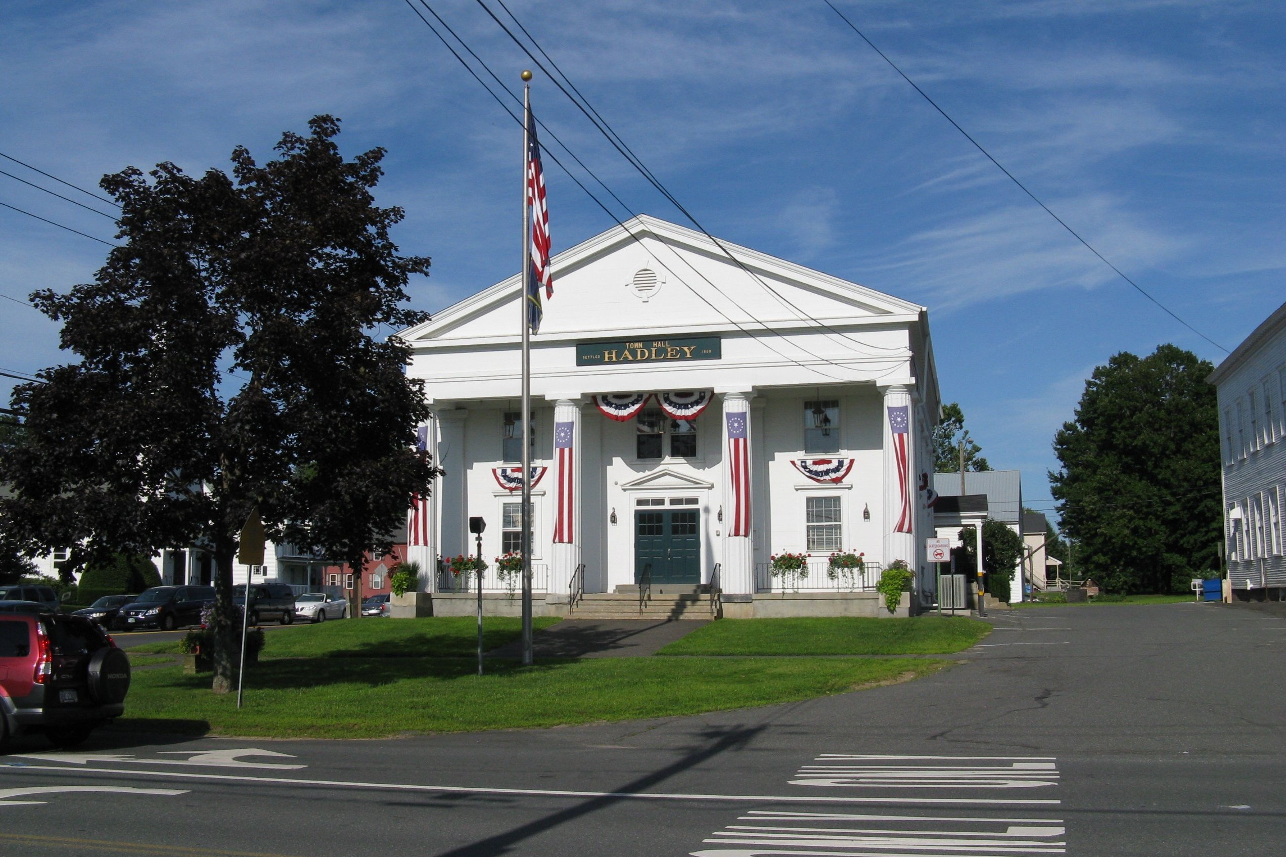 Hadley Town Hall, Hadley Massachusetts